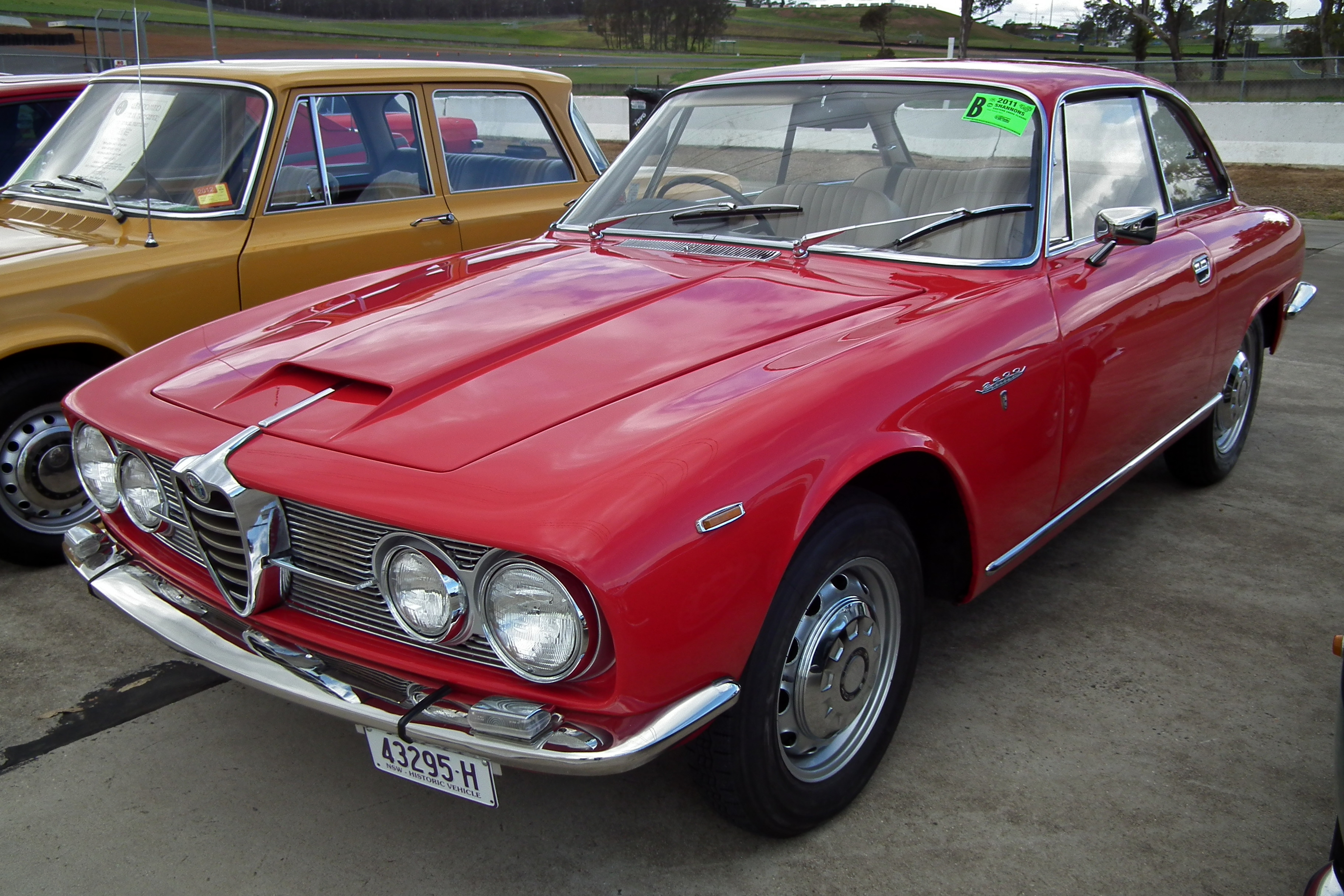 Alfa Romeo 2600 Sprint coupe. Taken at Shannon's Eastern Creek Classic 2011, held at Eastern Creek Raceway Sydney.